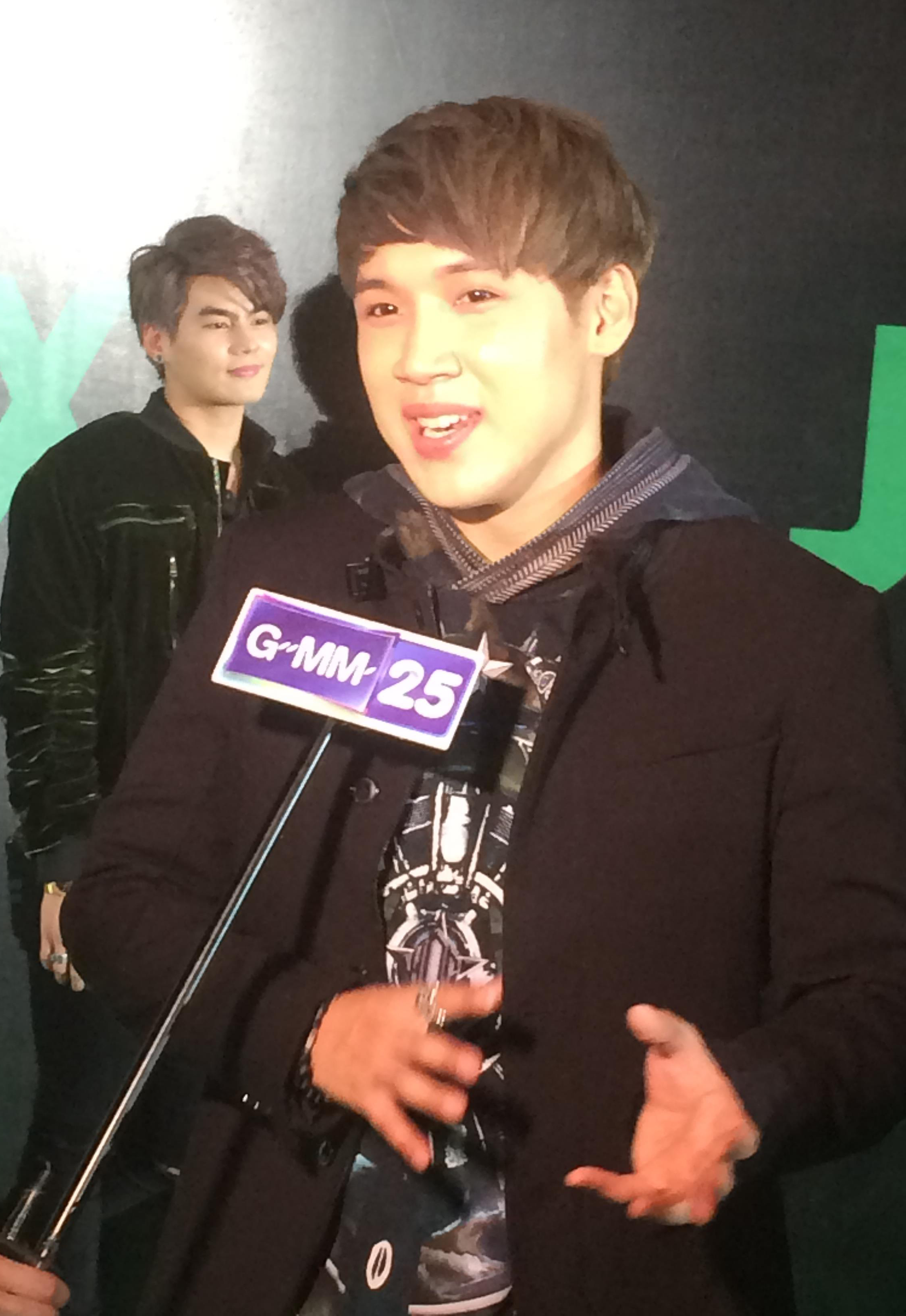 Kangsom Nontanun at Joox Music Awards 2017